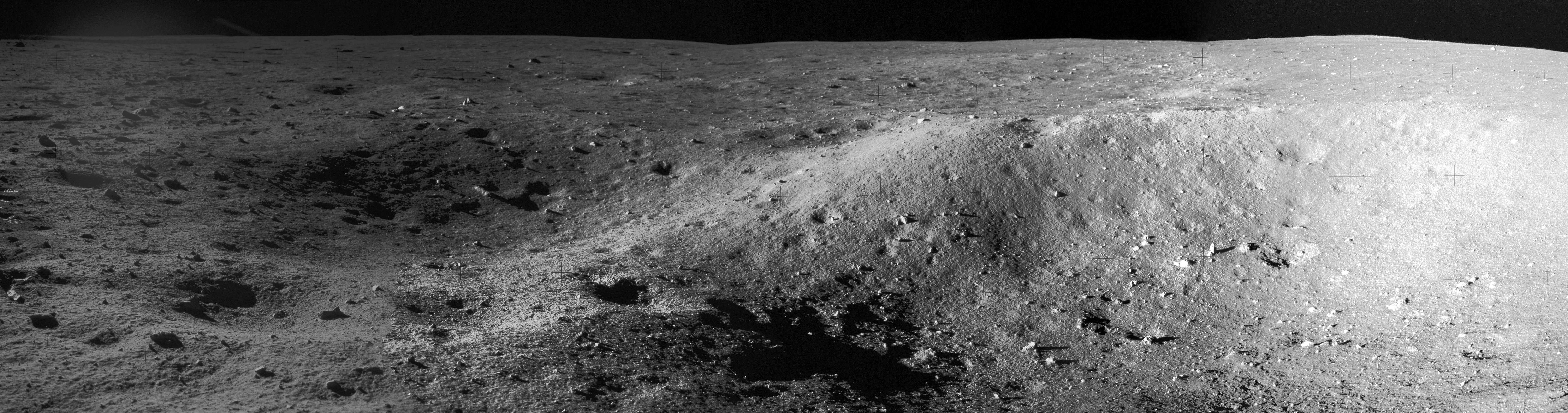 Greyscale image of a small pair of lunar craters known as double that is located just to the west of where the apollo 11 eagle landed. Image is a hug-in generated composite of multiple photos taken by Buzz Aldrin (AS11-40-5888, AS11-40-5889, AS11-40-5890, AS11-40-5891 AS11-40-5881) The missing part of the crater on the right is in part shown in AS11-40-5882 but there appears to be a gap between it and the area covered by AS11-40-5881. Image is greyscale due to issues with colour balance.